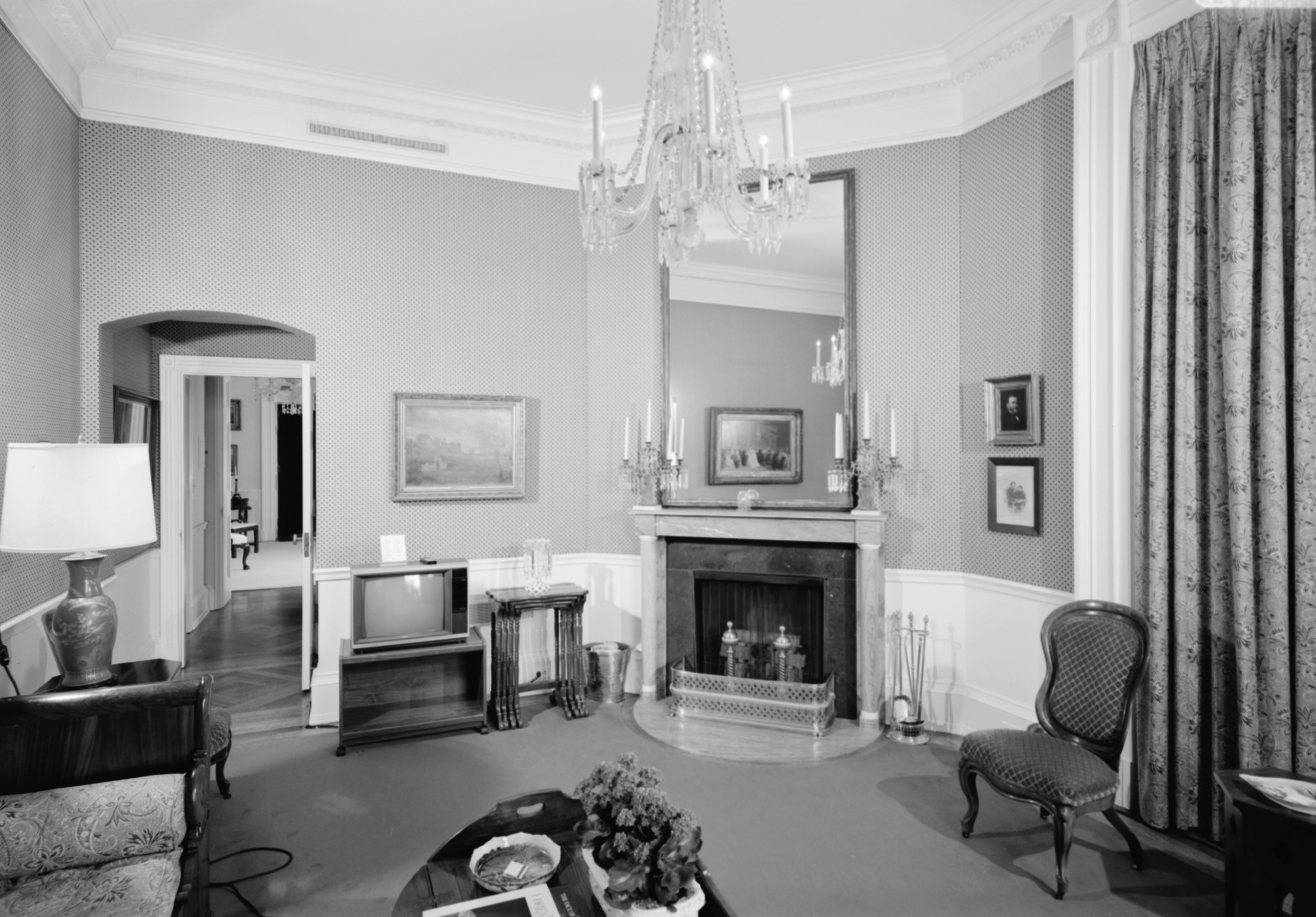 Lincoln Sitting Room in the White House